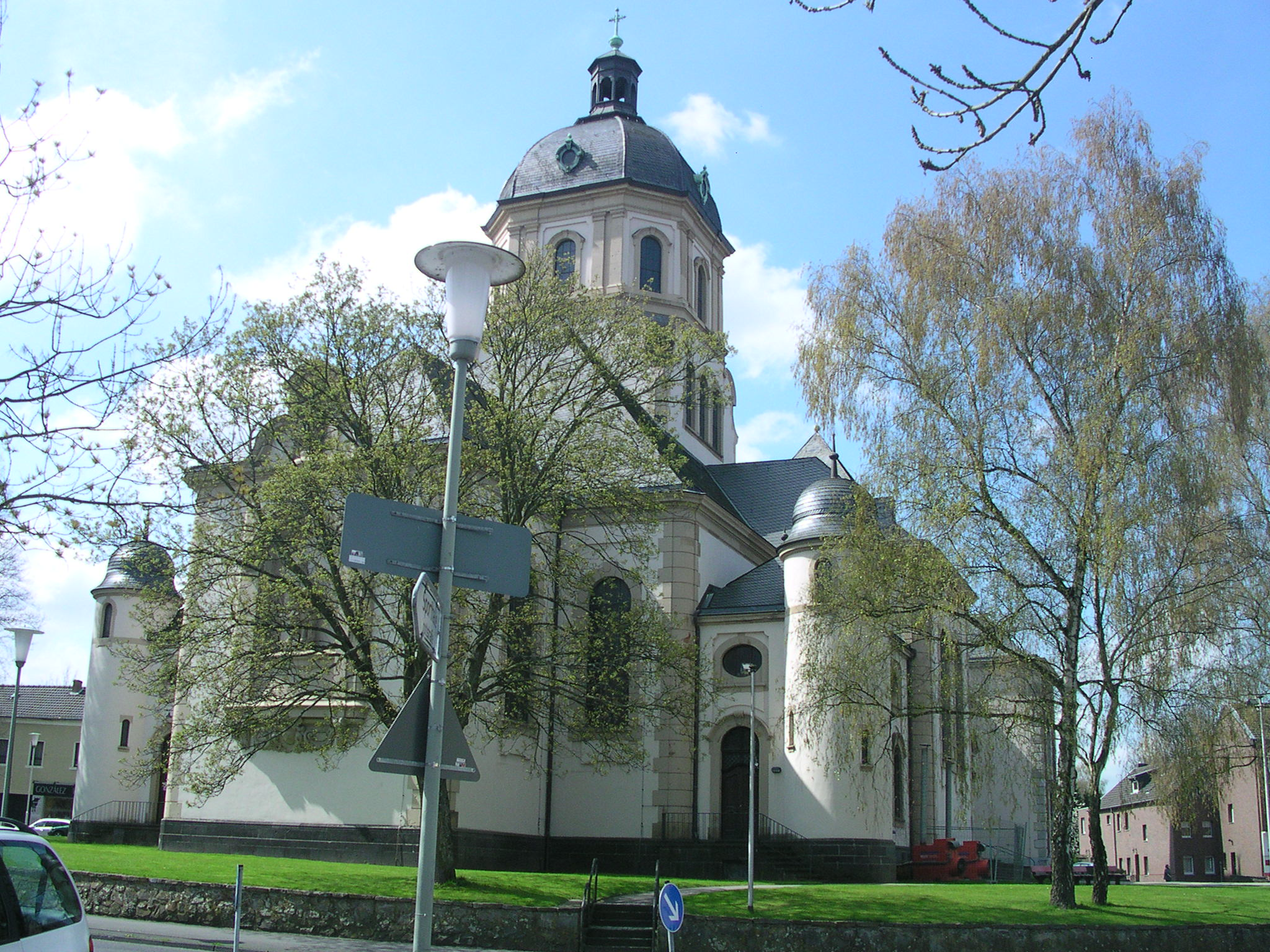 catholic church St. Sebastian in Würselen, Germany